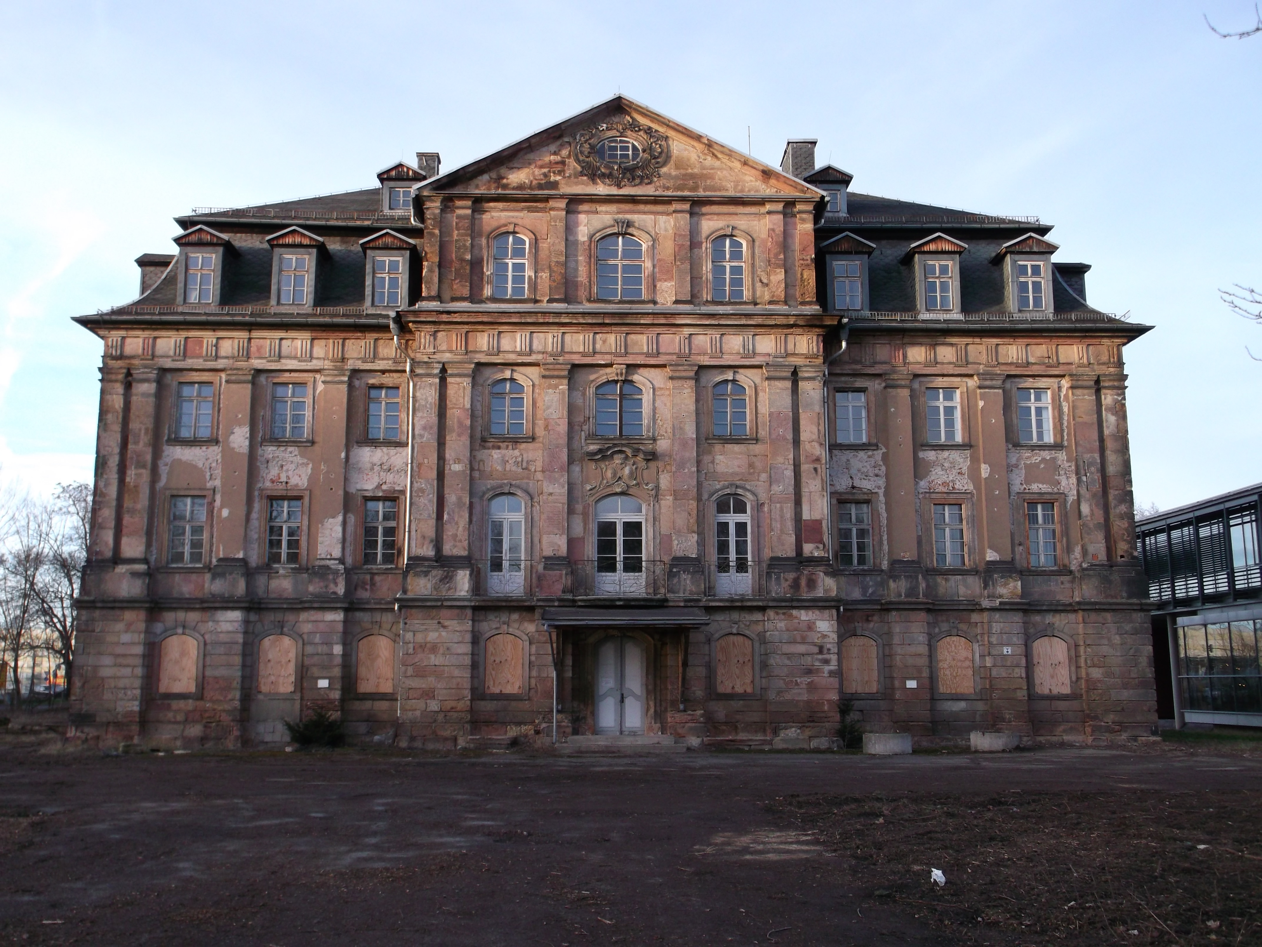 Former Tinz Castle and Berufsakademie (Academy of Cooperative Education) in Gera, Germany, in December 2012; shortly before beginning of the castle's modernization